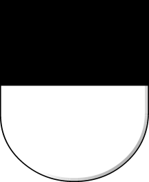 coat of arms canton of Fribourg